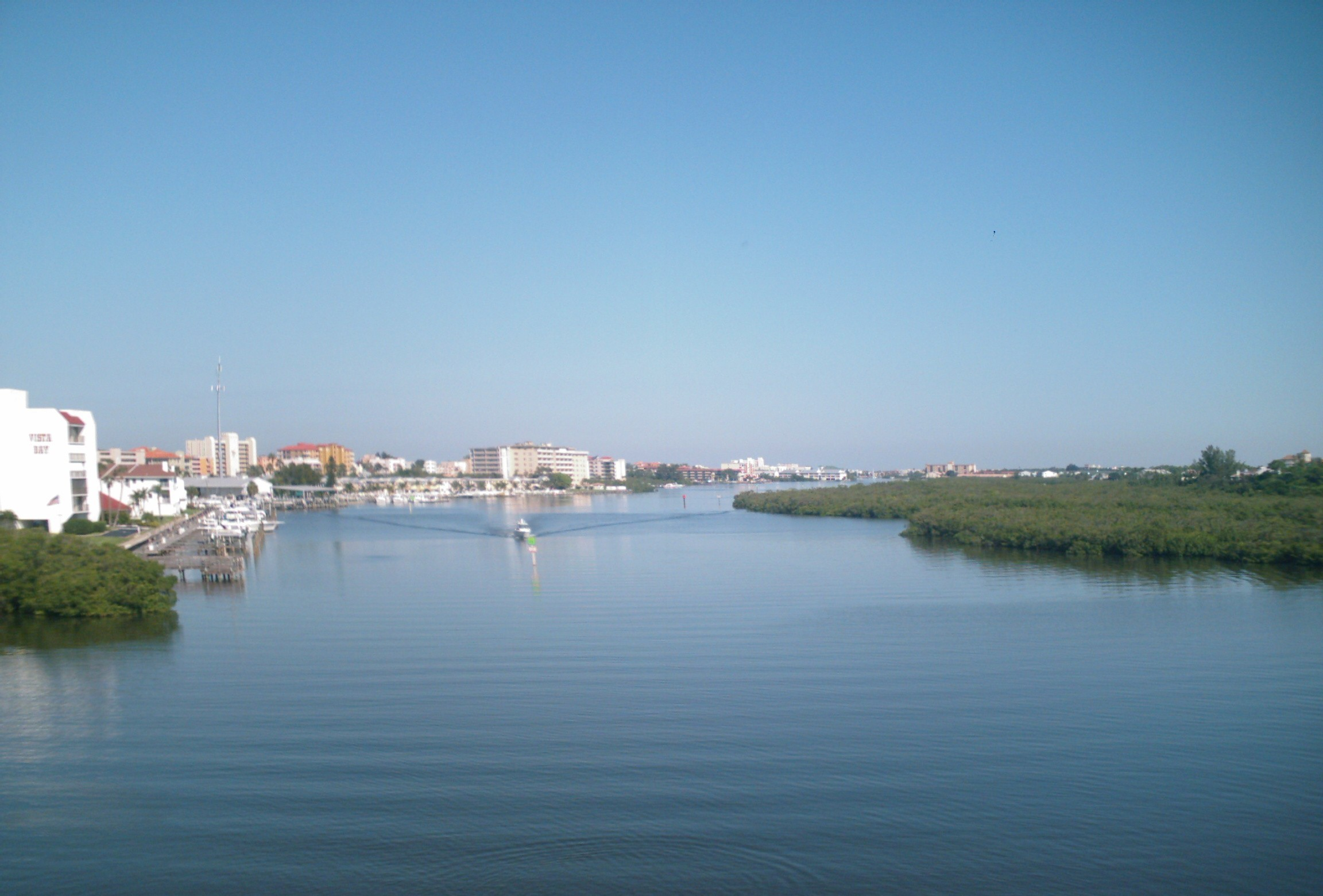 Looking north on Florida State Road 694 from bridge over Intracoastal Waterway. Indian Shores on left, mangroves on right. Taken with a Vupoint DC-306AT 3.1 megapixel digital camera.